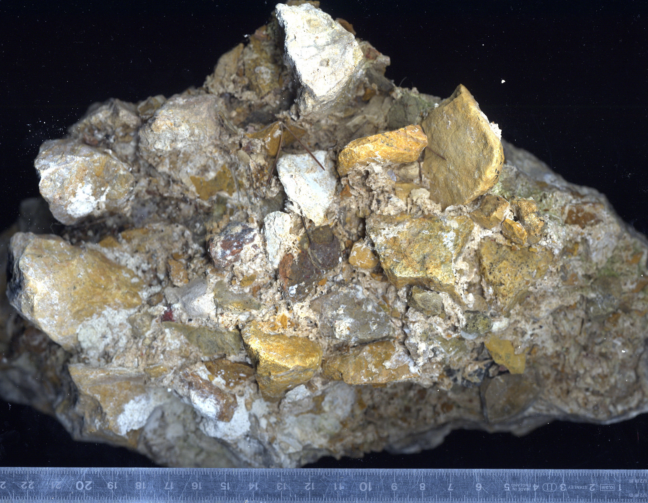 Fréjus's aqueduct : roman concrete